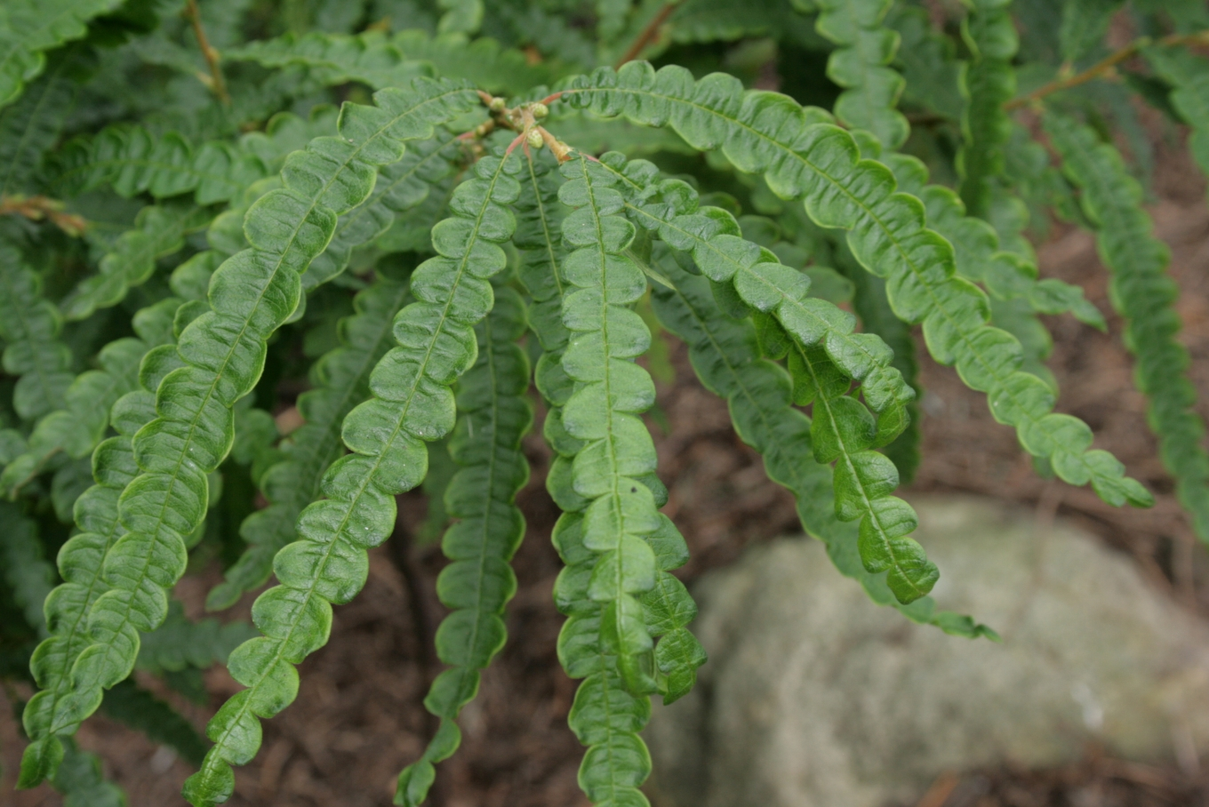 Comptonia peregrina: Foliage (Photo from the Botanical Garden of Aarhus, Denmark)